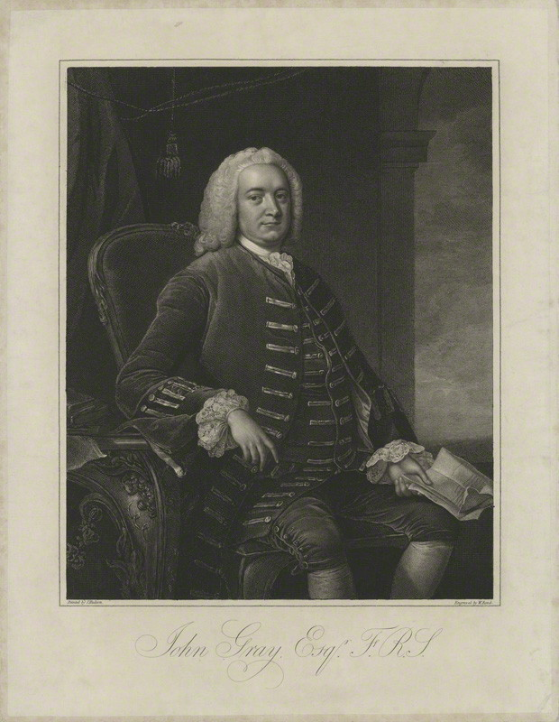 Stipple engraving of John Gray by William Bond after Thomas Hudson